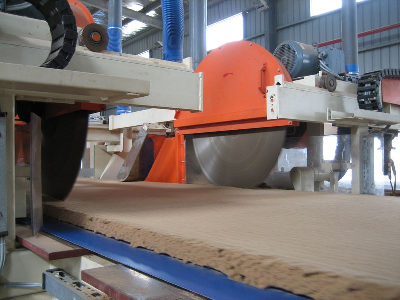 MDF-Mat at Mat Trimming Saws